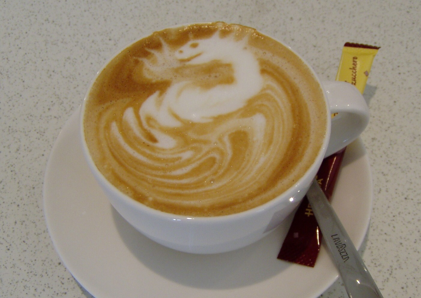 Artwork of a barista: Cappuccino with decor „dragon“